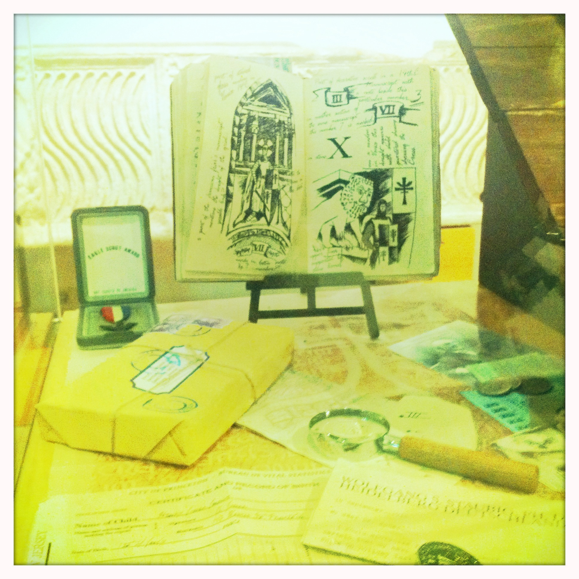 Props from the Indiana Jones films displayed during the exhibition "A la Recerca dels Tresors Perduts" at the Archaeology Museum of Catalonia, Barcelona, Spain.